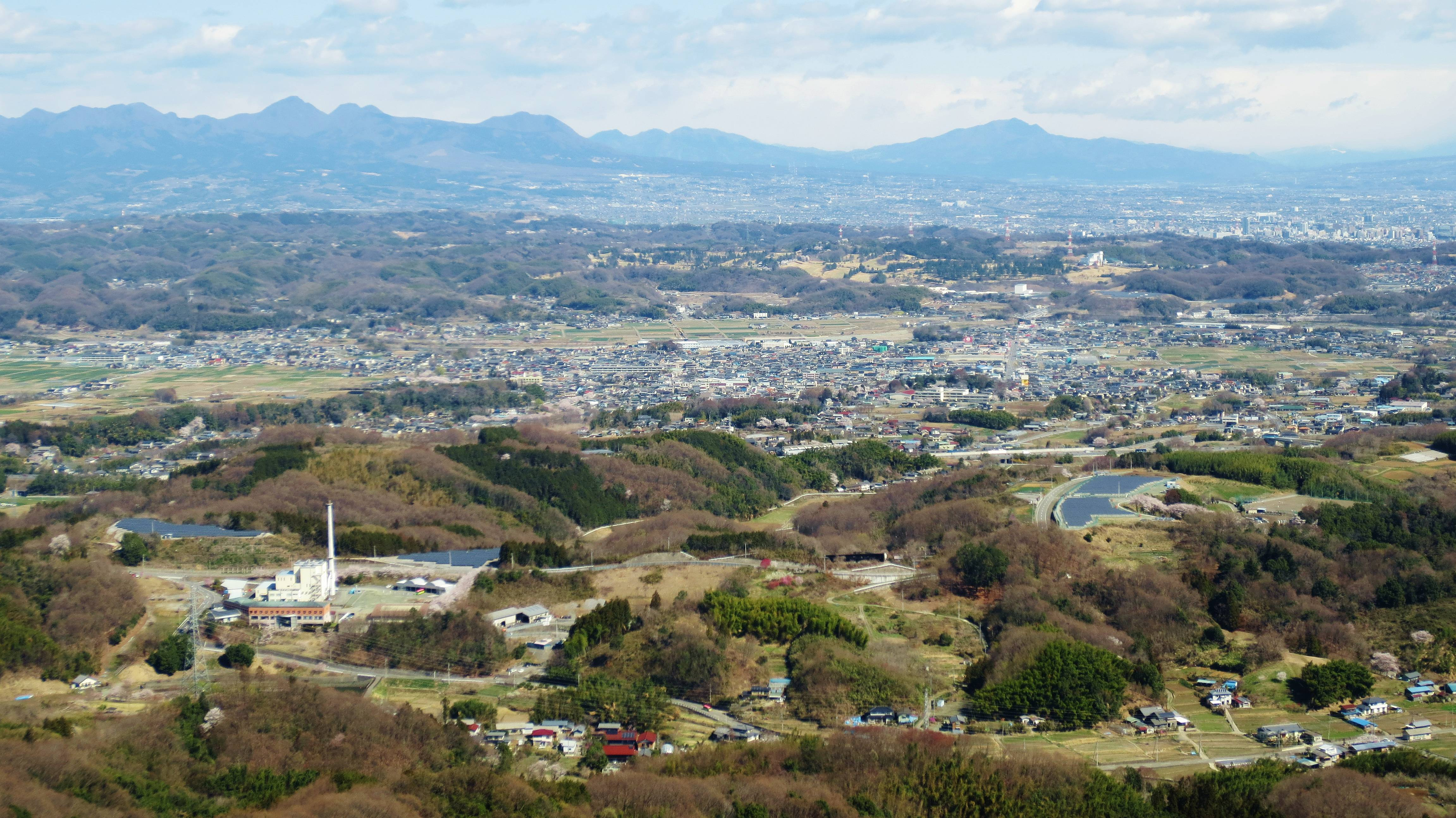 View from Mount Ushibuse (Takasaki, Gunma).